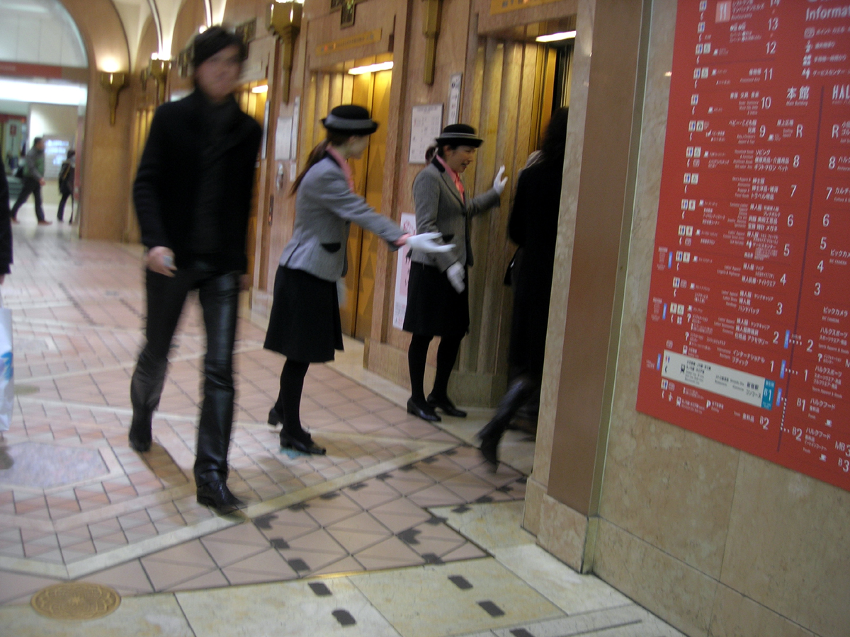 Welcome to our elevator please come again.